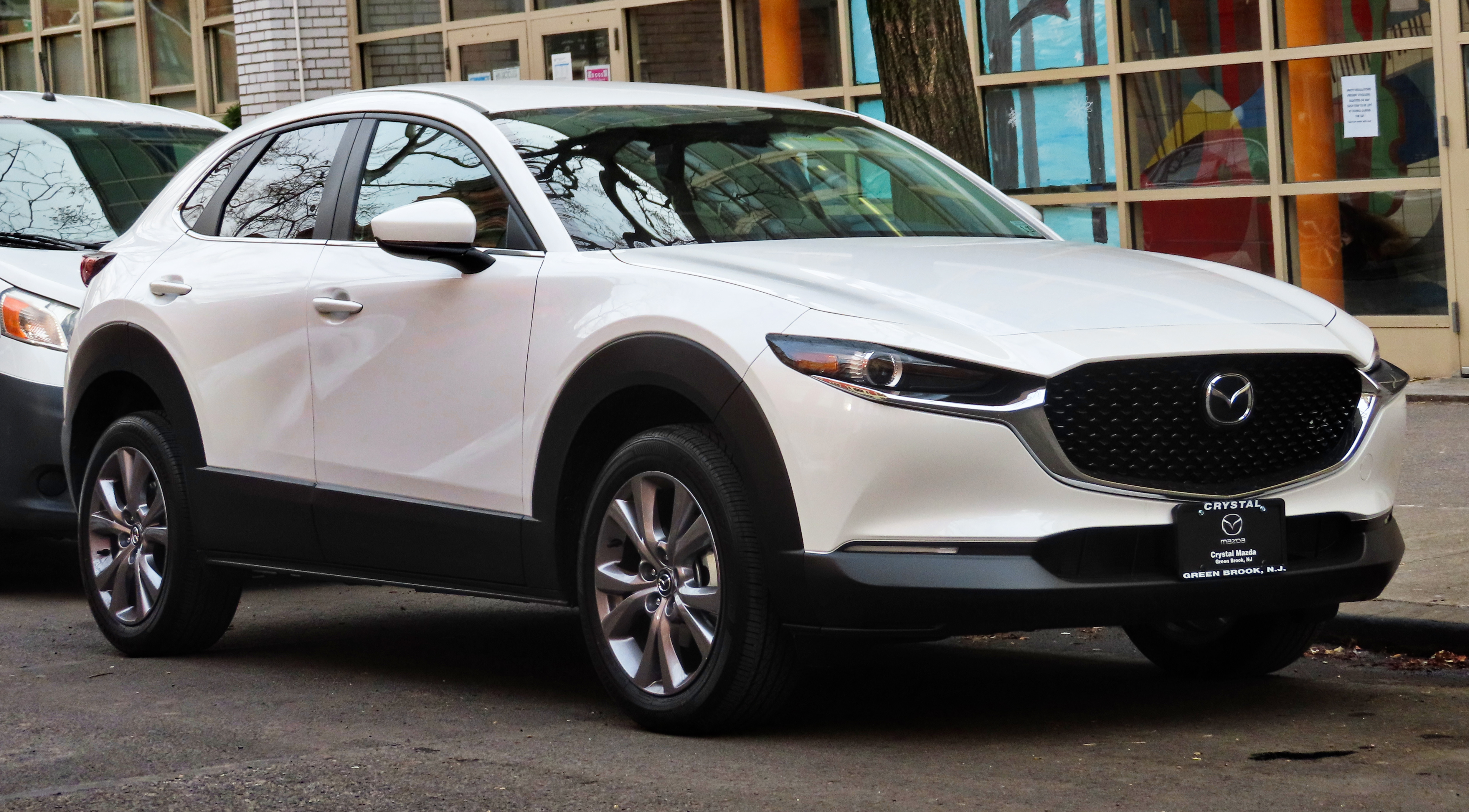 A 2020 Mazda CX-30 photographed in Greenwich Village, Manhattan, New York, USA